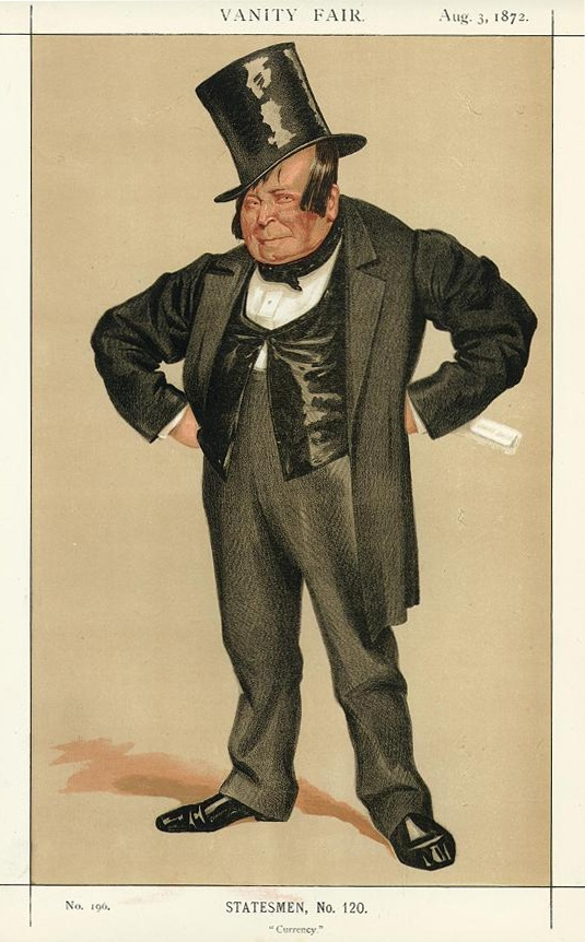 Caricature of James Delahunty MP (1808-1885). Caption read "Currency".